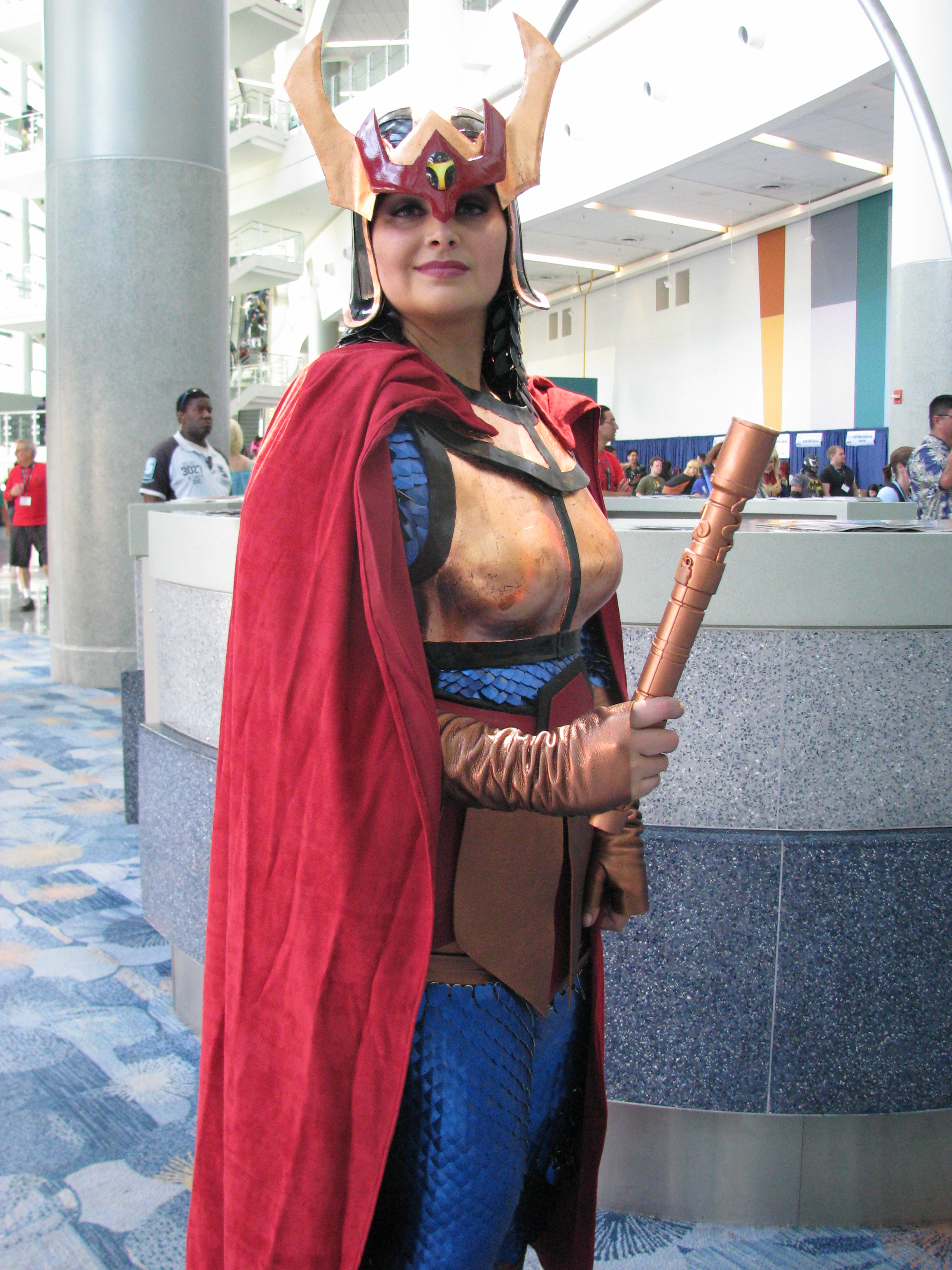 WonderCon 2014 - Big Barda Cosplay